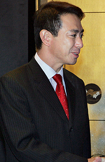 Seiji Maehara